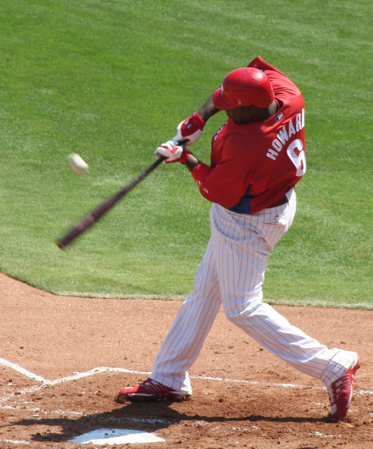 Photograph taken by Googie Man and released under the terms of the GFDL. 21:40, 12 March 2007 . . Googie Man . . 1259×1516 (637,544 bytes)